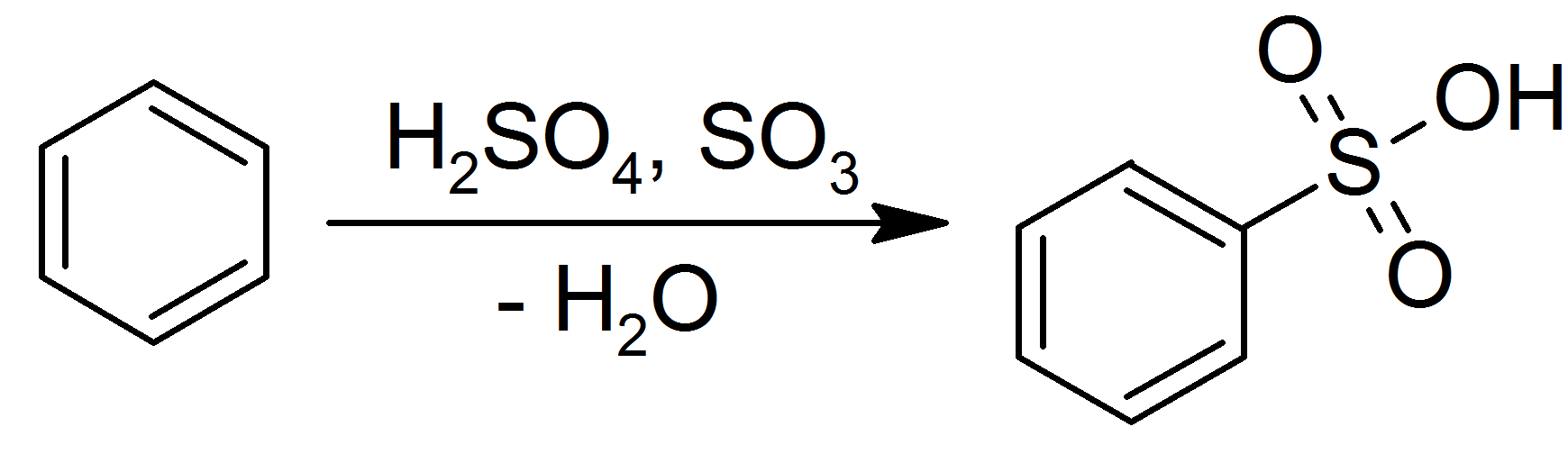 Benzene sulfonation 96dpi